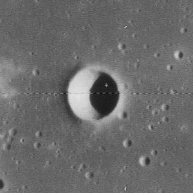 Scheele crater, on the moon.